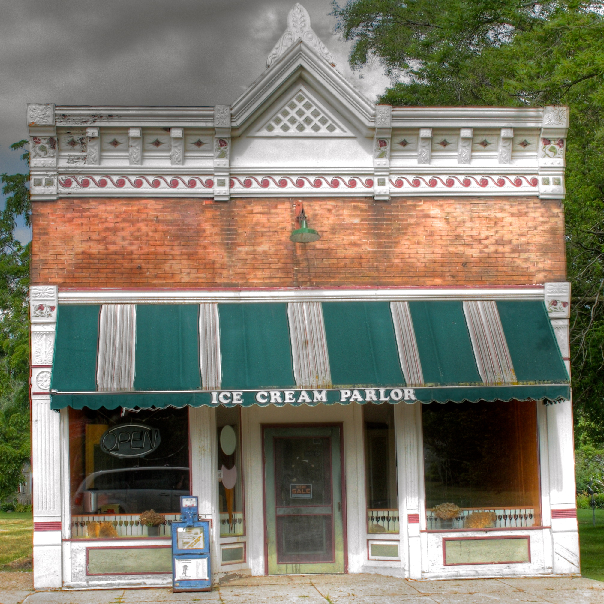 Ice Cream Parlor, for sale, in Galien, Michigan.